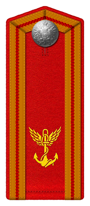 Private of the administrative arm of Russian officer Aeronautical school